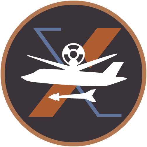 Symbol of IAF Squadron 601 - Flight Test Center (In Hebrew: Manat מרכז ניסויי טיסה)